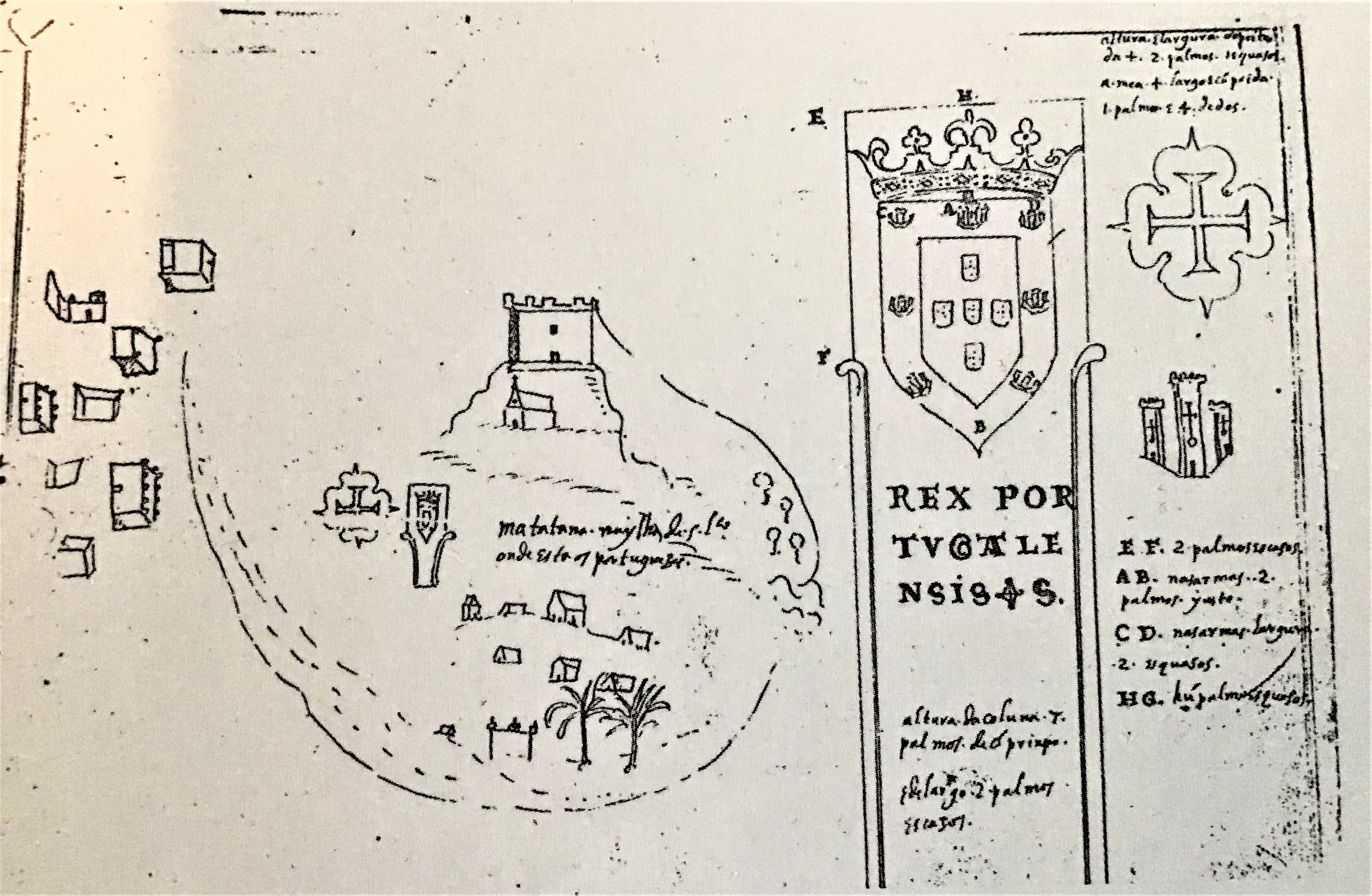 Portuguese settlement of Madagascar